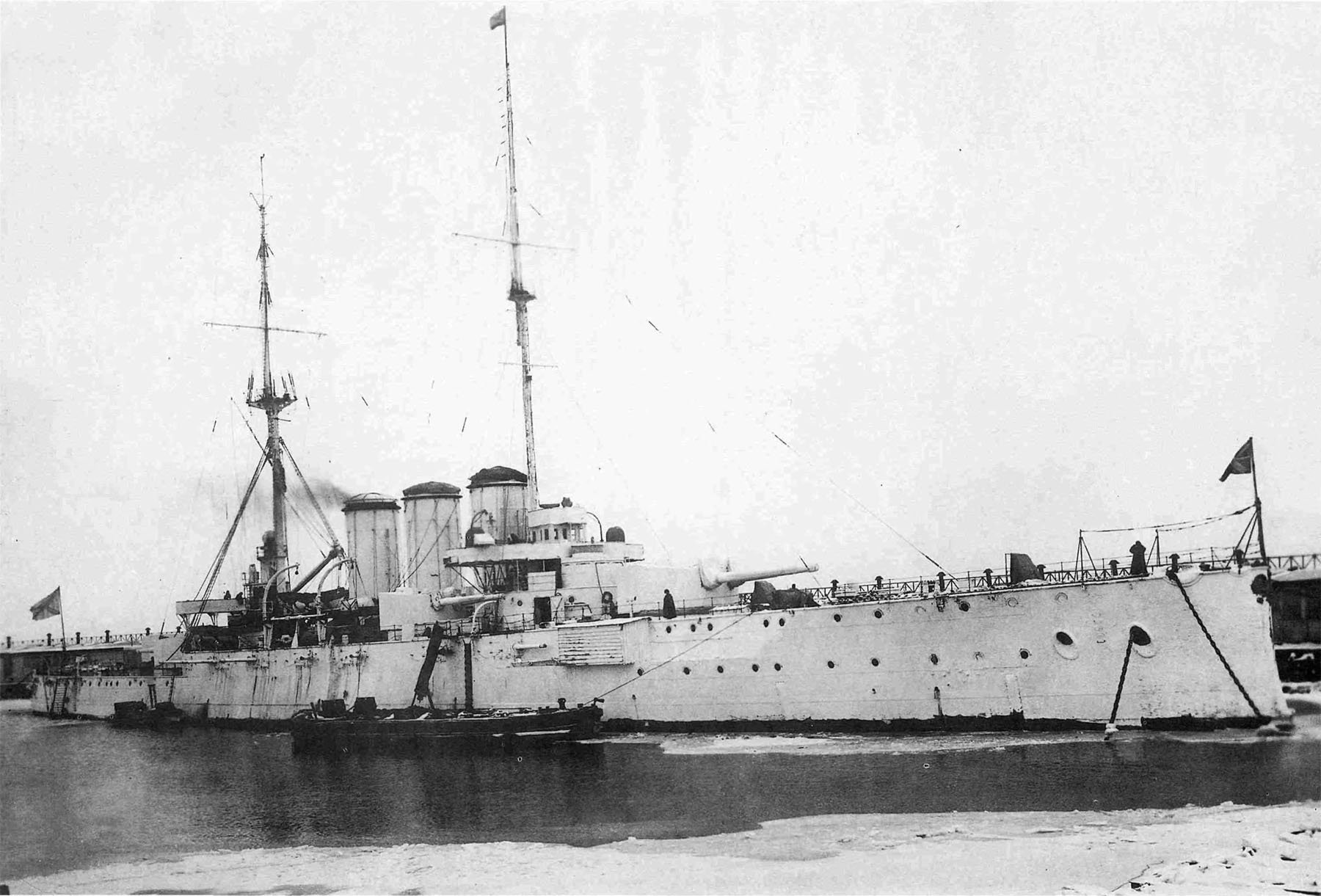 Imperial Russian cruiser Ryurik at Reval, winter 1915-1916.